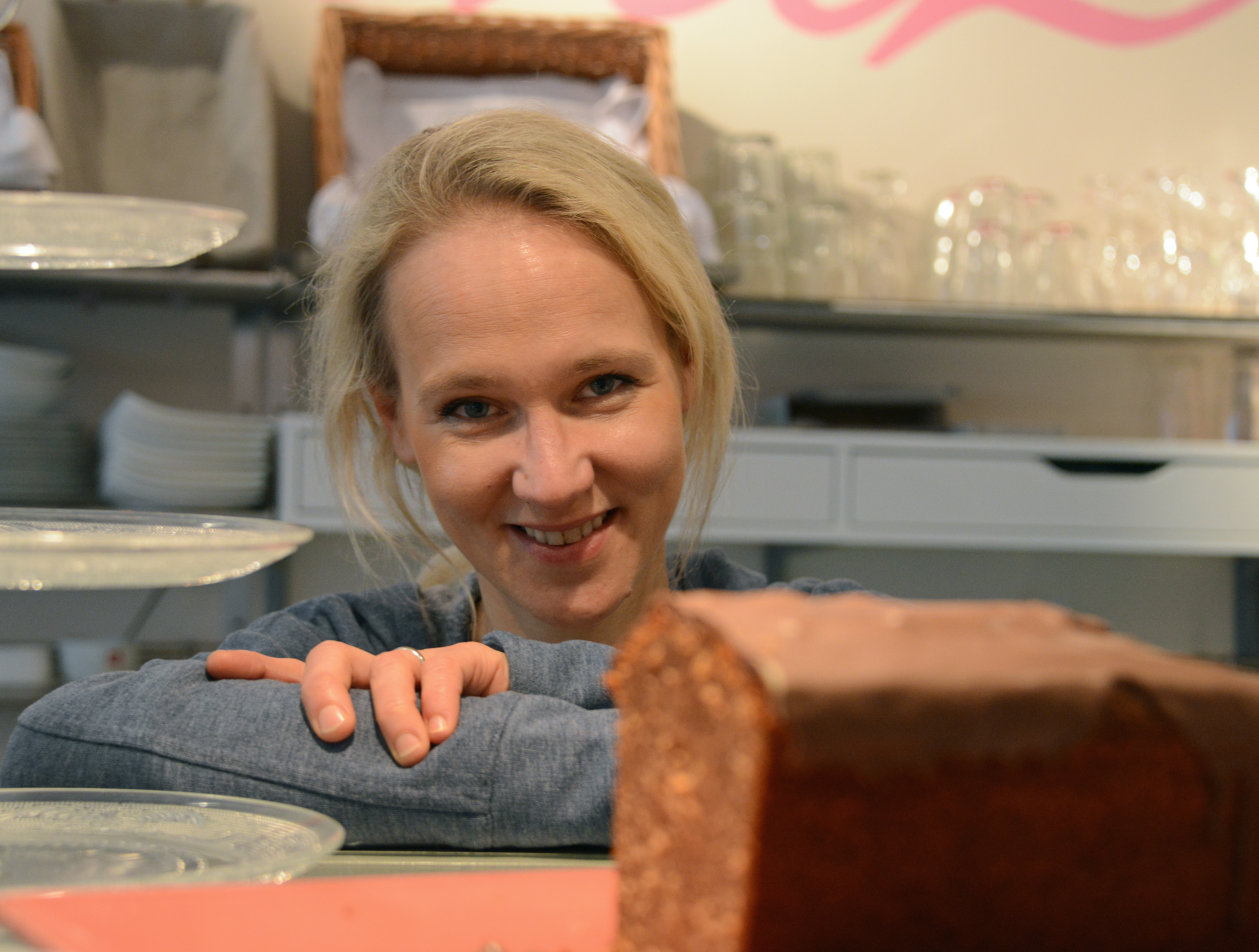 Annik Wecker